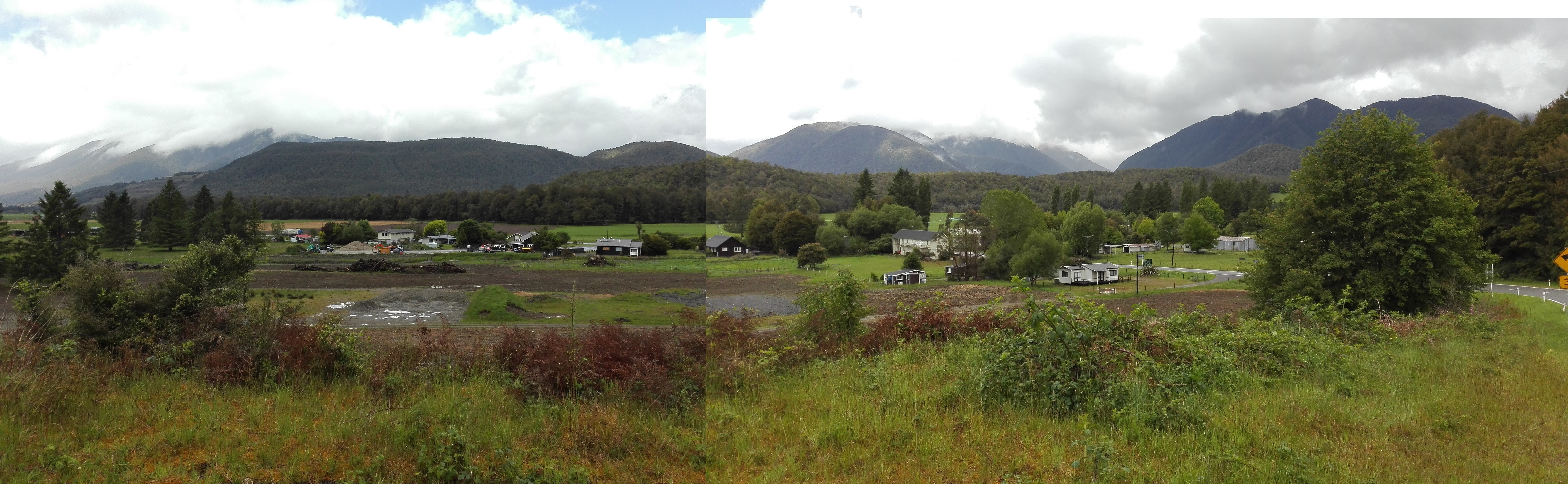 A panoramic view of the settlement of Springs Junction, South Island, New Zealand.